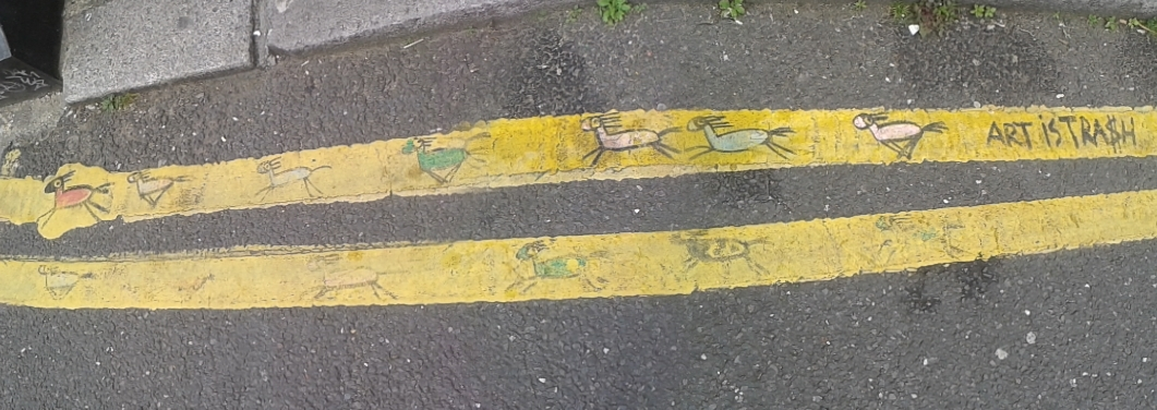 Artist: Francisco de Pajaro, Whitby Street, London